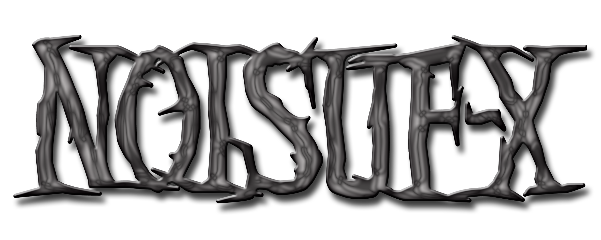 Logo of Noisuf-X